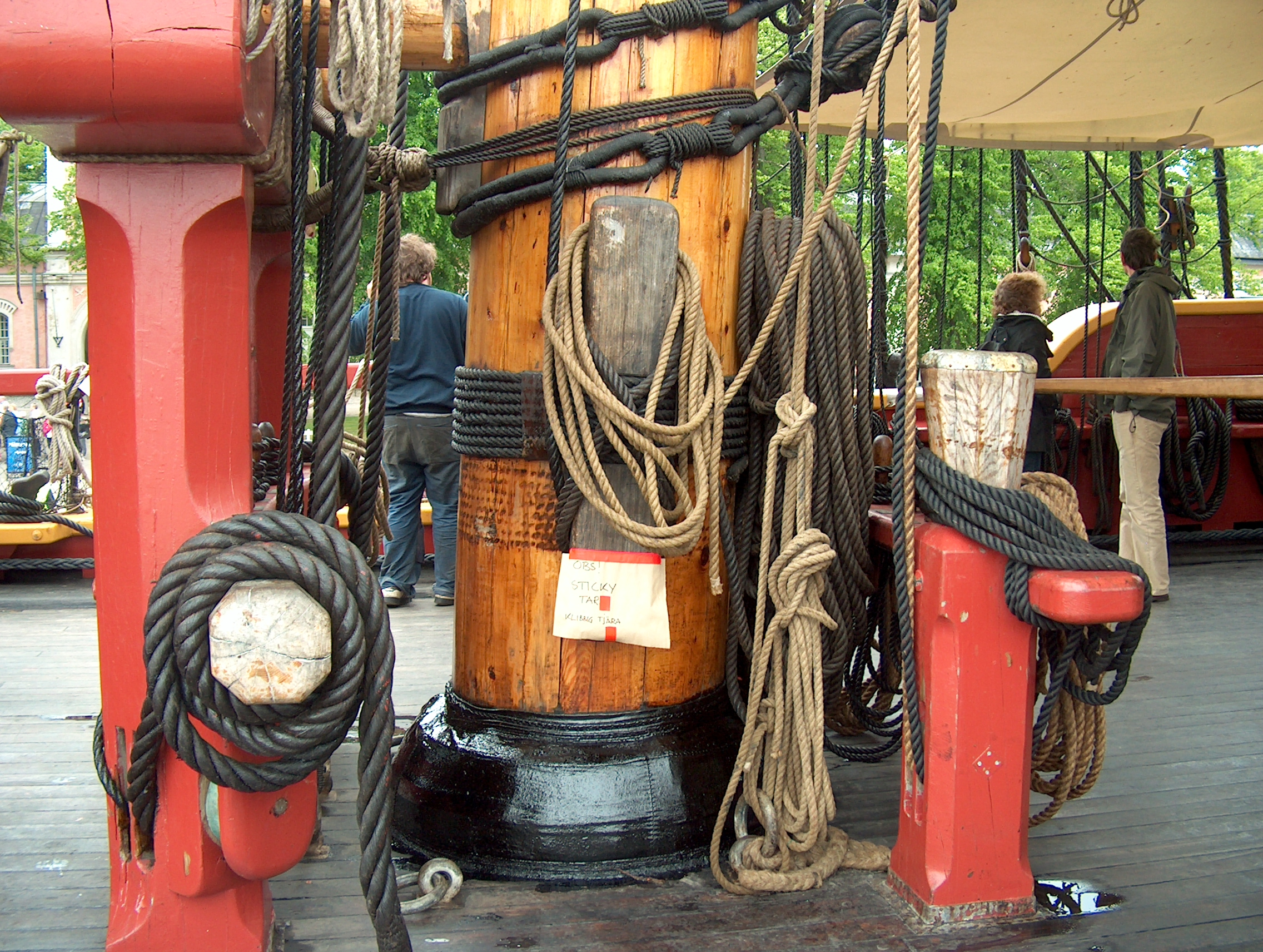 The lower part of the mast as seen on the deck